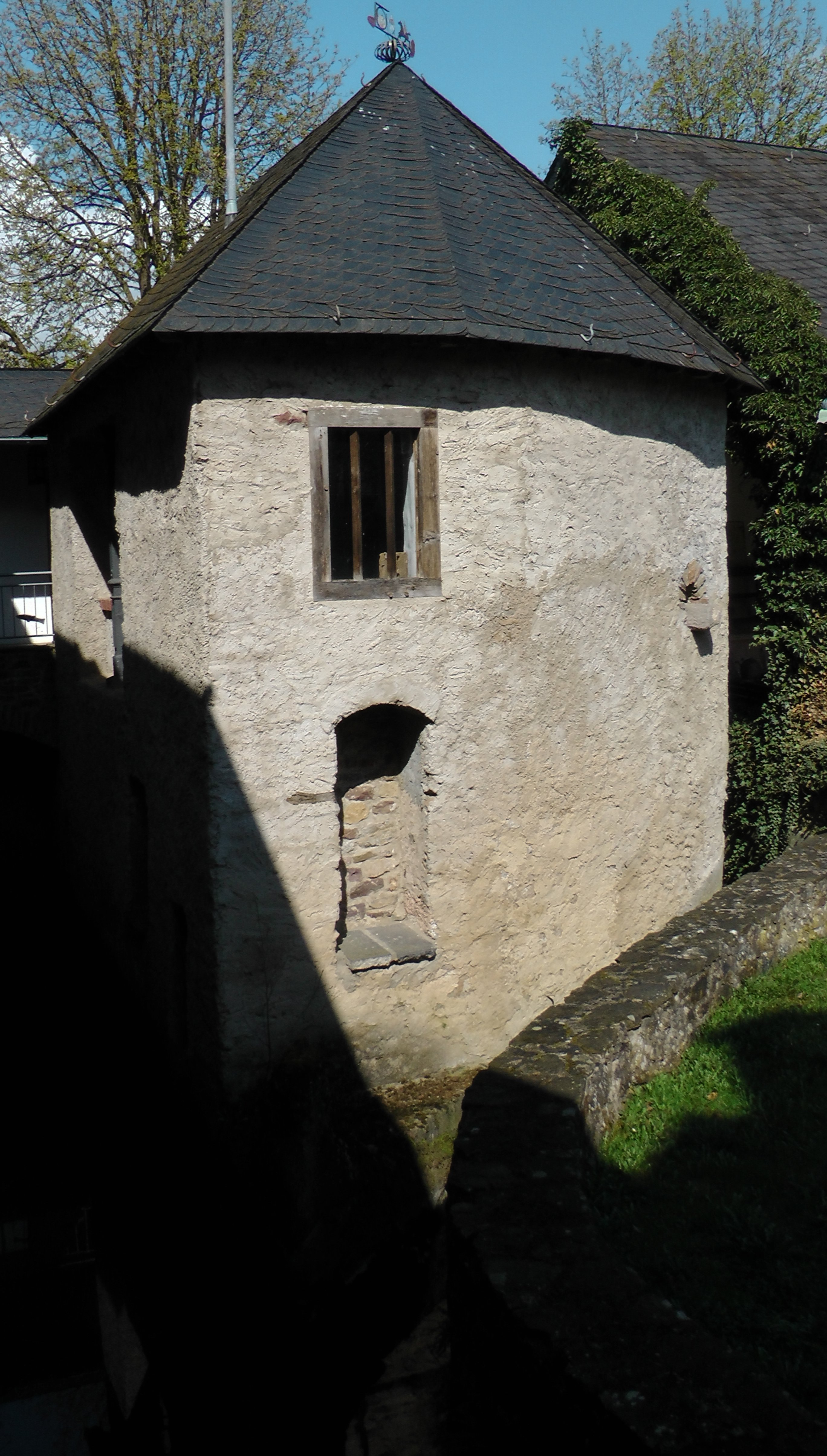 Lissingen castle - former power station